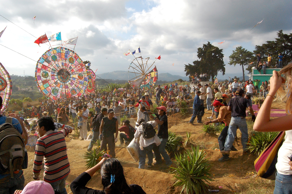 Annual kite festival in Santiago Sacatepéquez, Guatemala.